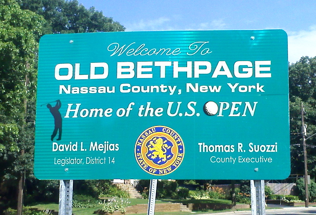 Sign at entry to hamlet of Old Bethpage, NY.